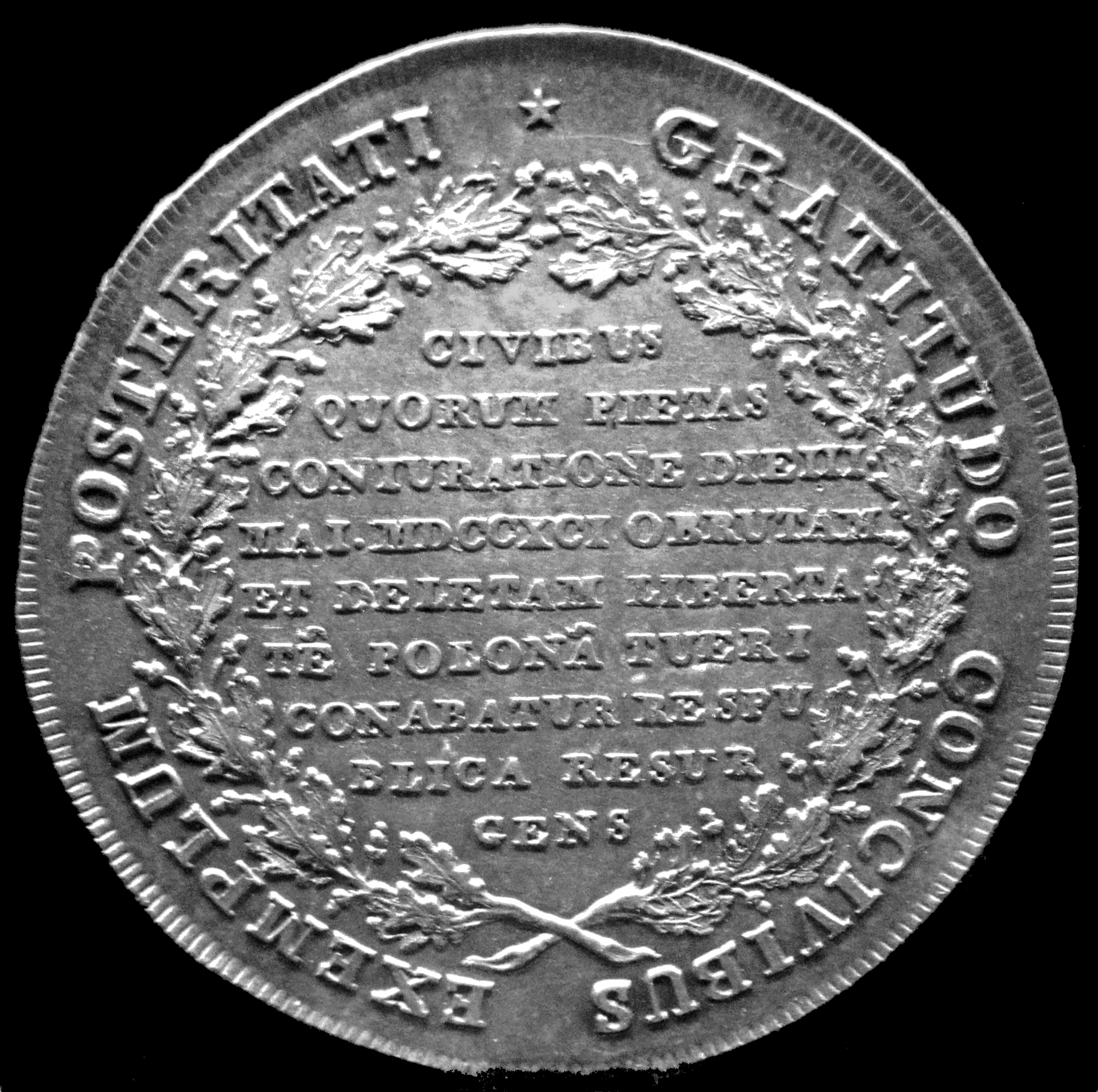 Taler of Targowica Confederation in Warsaw Royal Castle